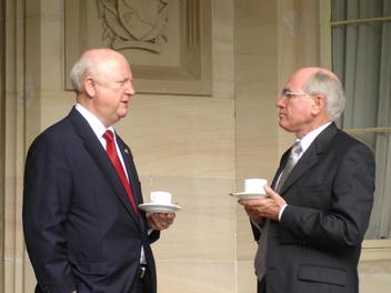 Australian Prime Minister John Howard and US Energy Secretary Samuel Bodman (left) at Government House in Sydney